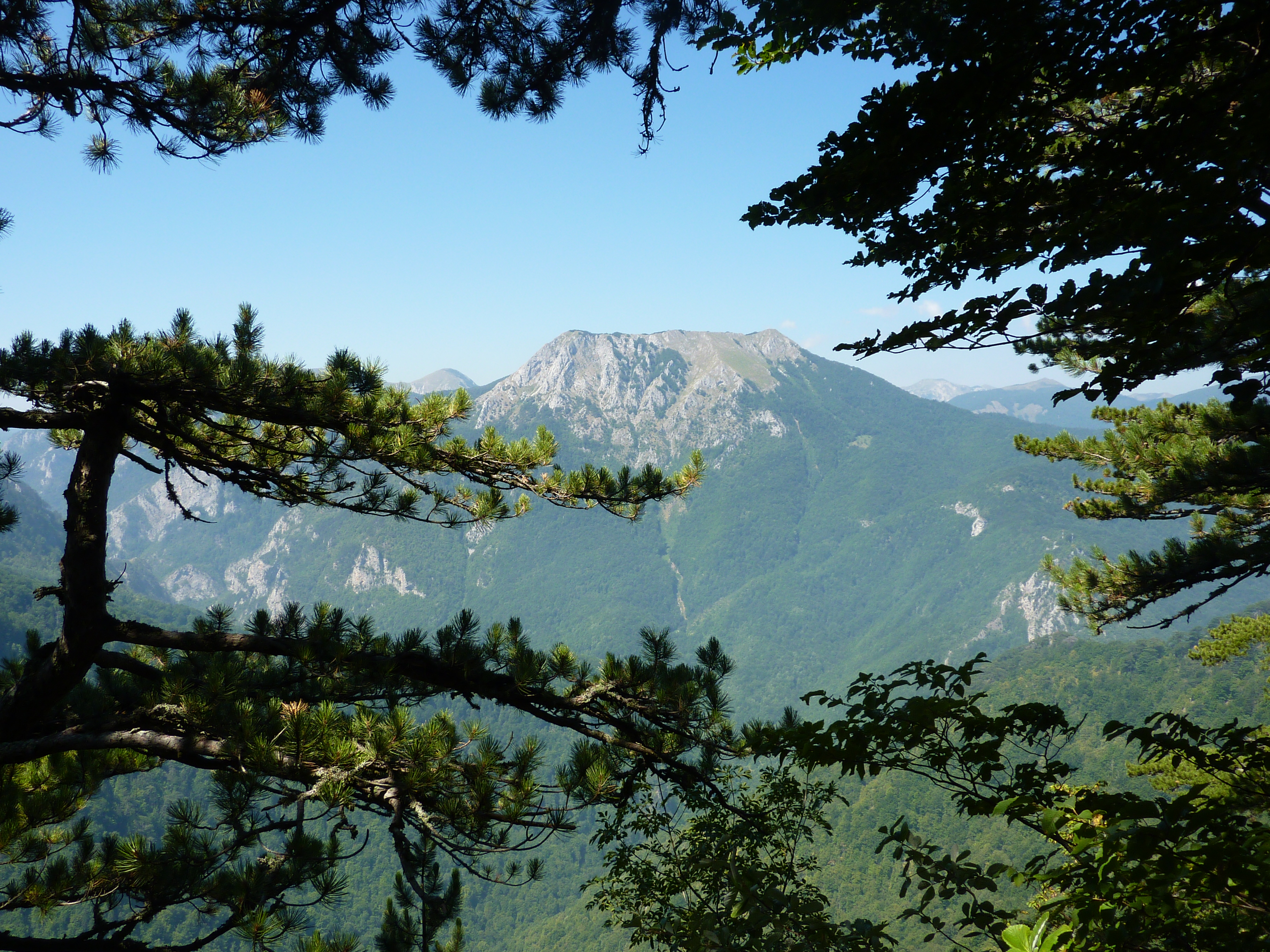 Perućica primeval forest in the Sutjeska National Park.